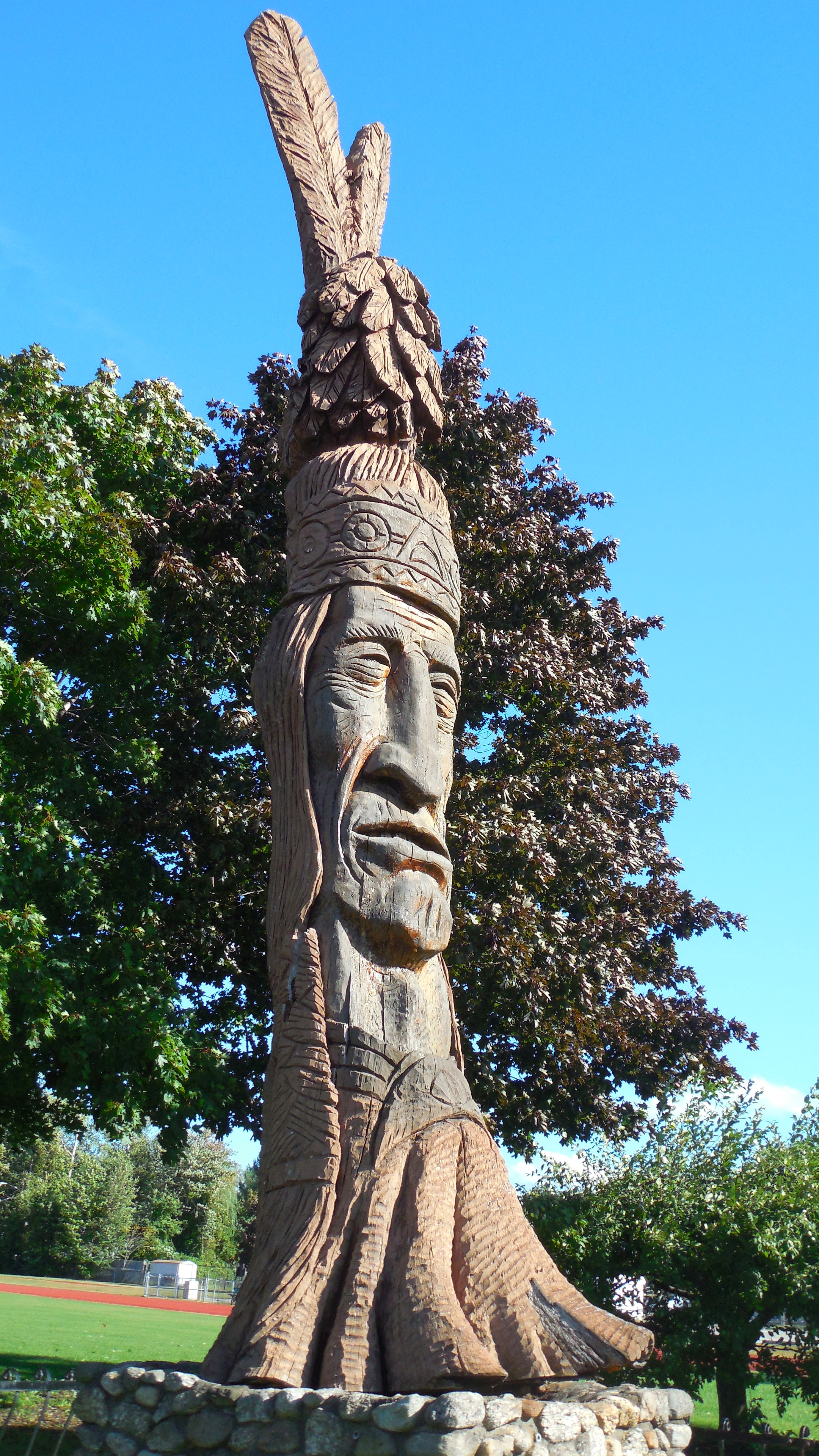 Statue of Keewakwa Abenaki Keenahbeh in Opechee Park in Laconia, New Hampshire, 2016. Sculpted by Peter Wolf Toth (Trail of Whispering Giants). Carved from a red oak tree from Cobble Mountain in Gilford, New Hampshire, this composite memorial of "Keewakwa Abenaki Keenahbeh" is located in Opechee Park, Laconia, New Hampshire, and stands at a height of 36 ft. During the dedication ceremonies in September 1984, more than 3,000 attended, which included an estimated 100 decendants of the Pennacook Suzuki tribe.[1]